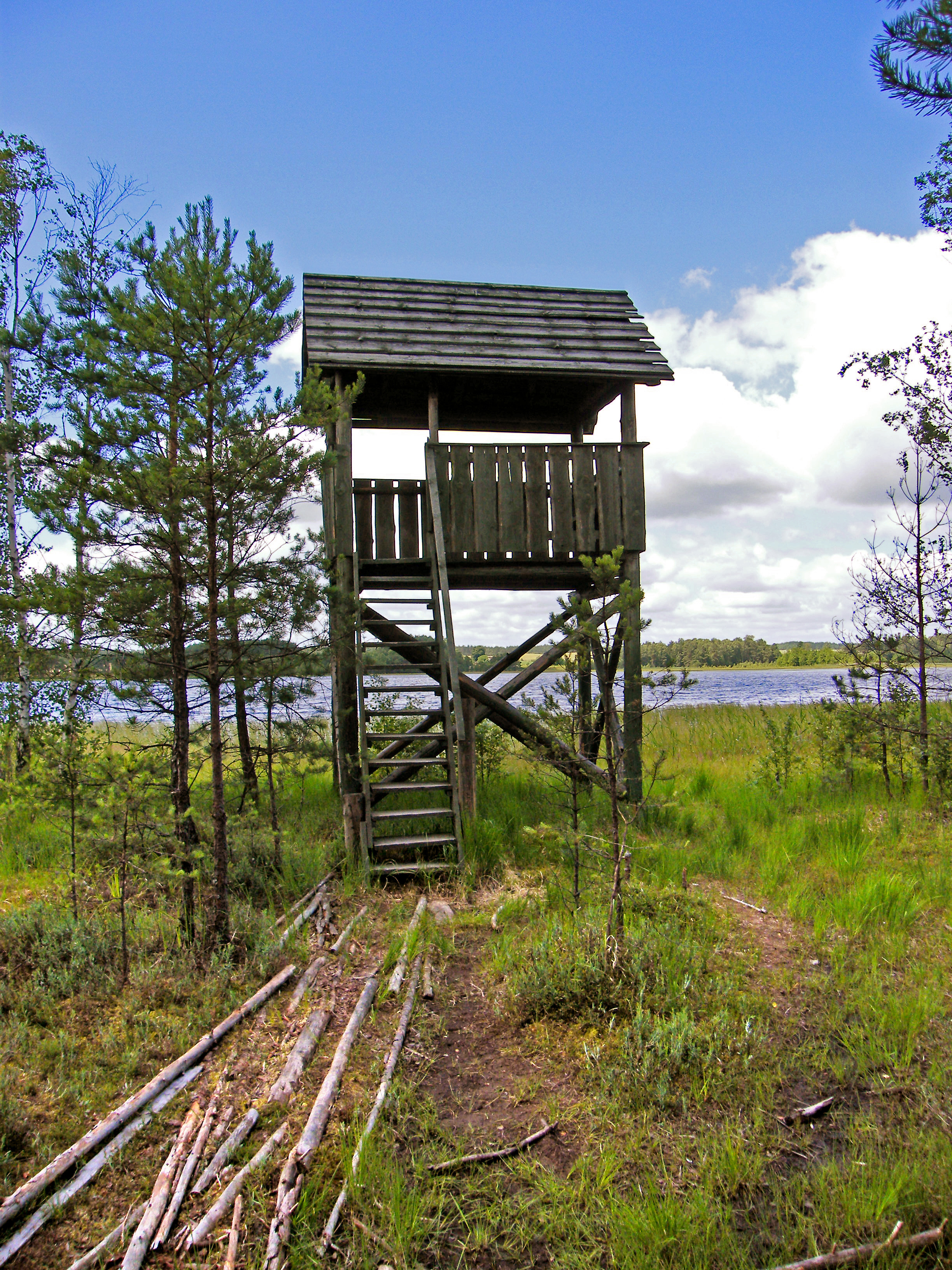 A waterfowl observation platform by Lipno Lake in the Wdzydze Landscape Park.